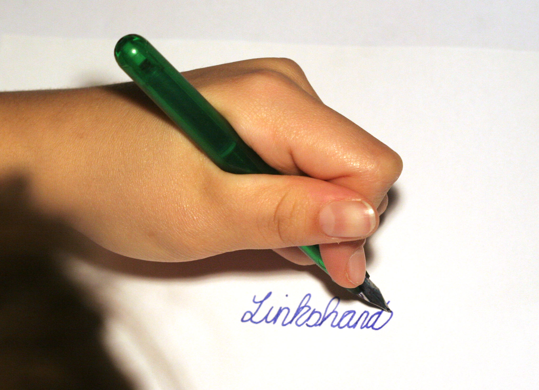 Left hand writing the Dutch word "Linkshandig" (left-handed).